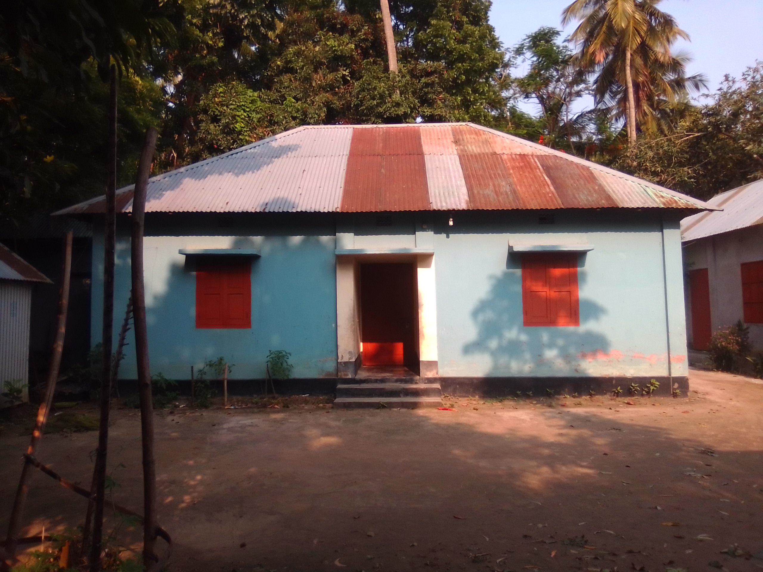 দেওয়ানগঞ্জ উপজেলার, খড়মা বাজার (নয়াপাড়াতে) অবস্থিত